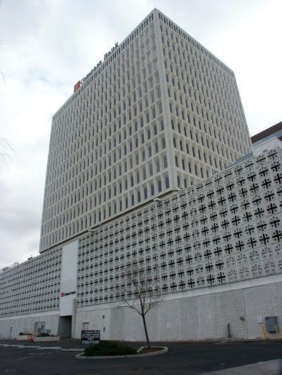 The North elevation of the Compass Bank Building, Albuquerque's 3rd-tallest building.